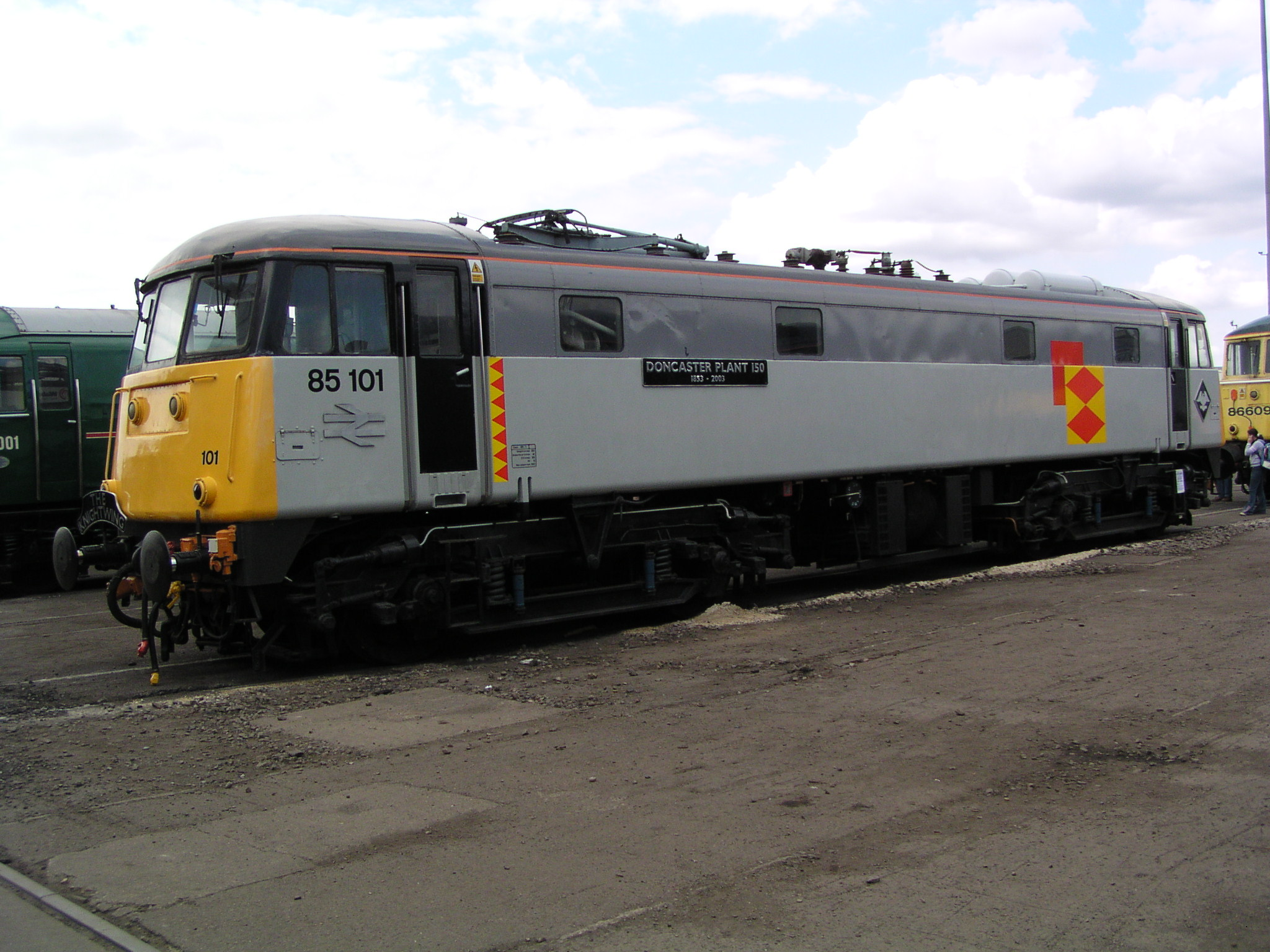 British Rail Class 85, no. 85101 'Doncaster Plant 150 1853-2003', on display at Doncaster Works open day on 27th July 2003. This locomotive is preserved by the AC Locomotive Group at Barrow Hill Engine Shed. It was named to commemorate the 150th anniversary of Doncaster Works, and is painted in Railfreight Distribution livery, a livery it never carried in service.